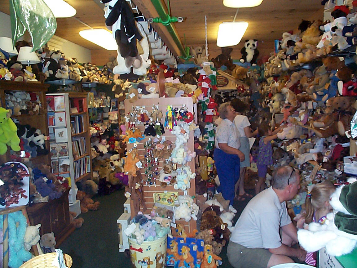 The gift store for the now closed Teddy Bear Museum of Naples. Taken in 2002 by myself.